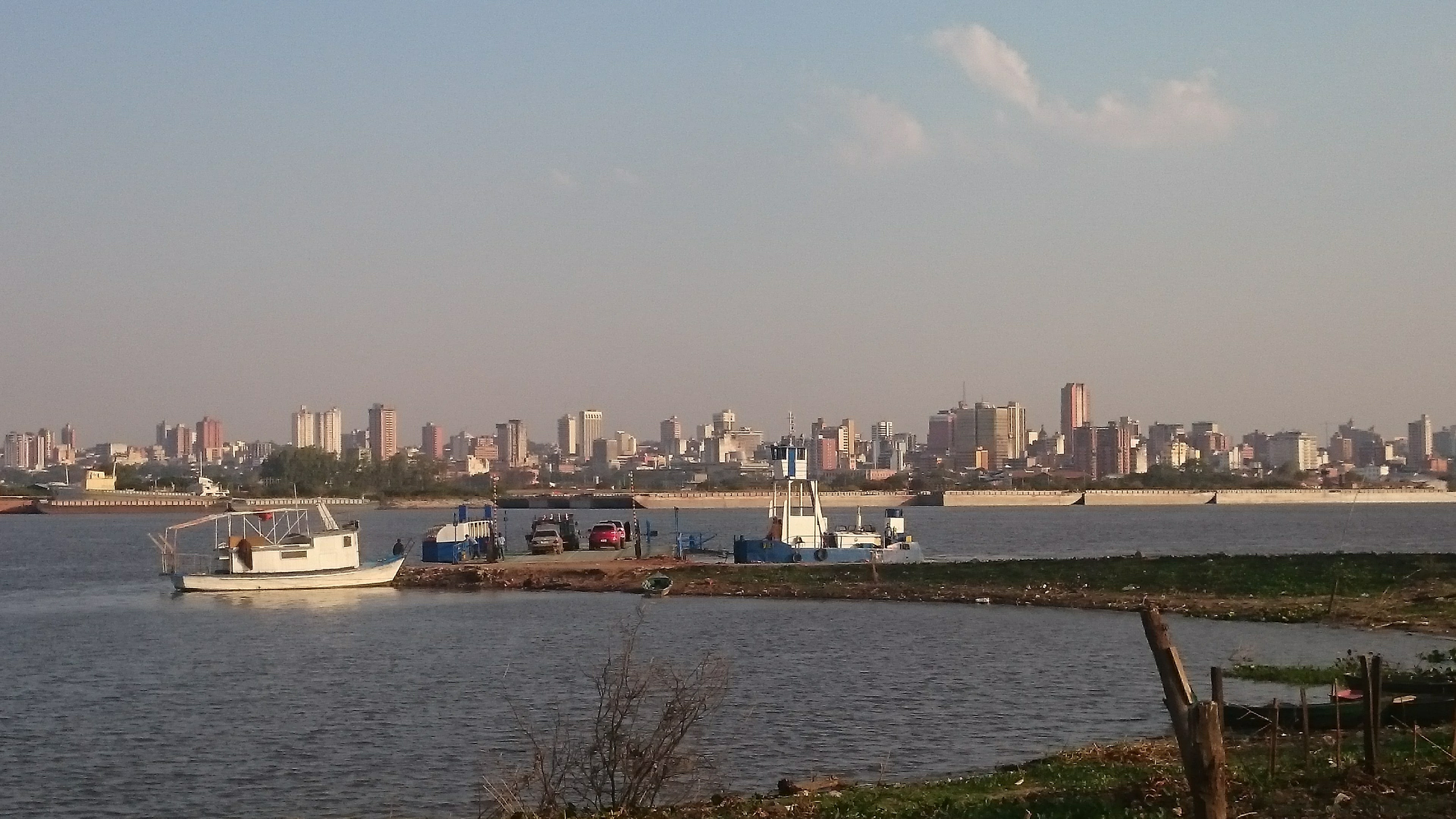 Asunción skyline seen from Chaco'i city.